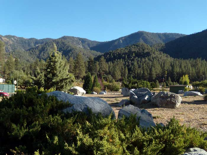 Photo by George Garrigues, Pine Mountain Club, California, October 2008.